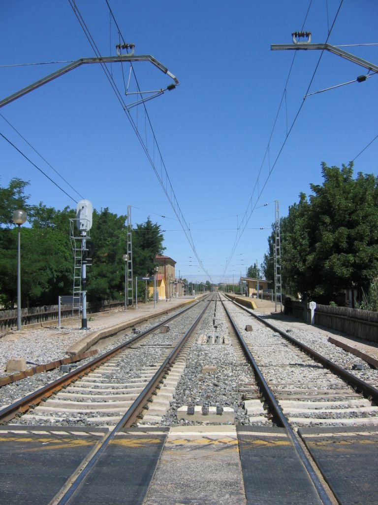 View from the railway station of Osorno la Mayor (Palencia, Castile and León).